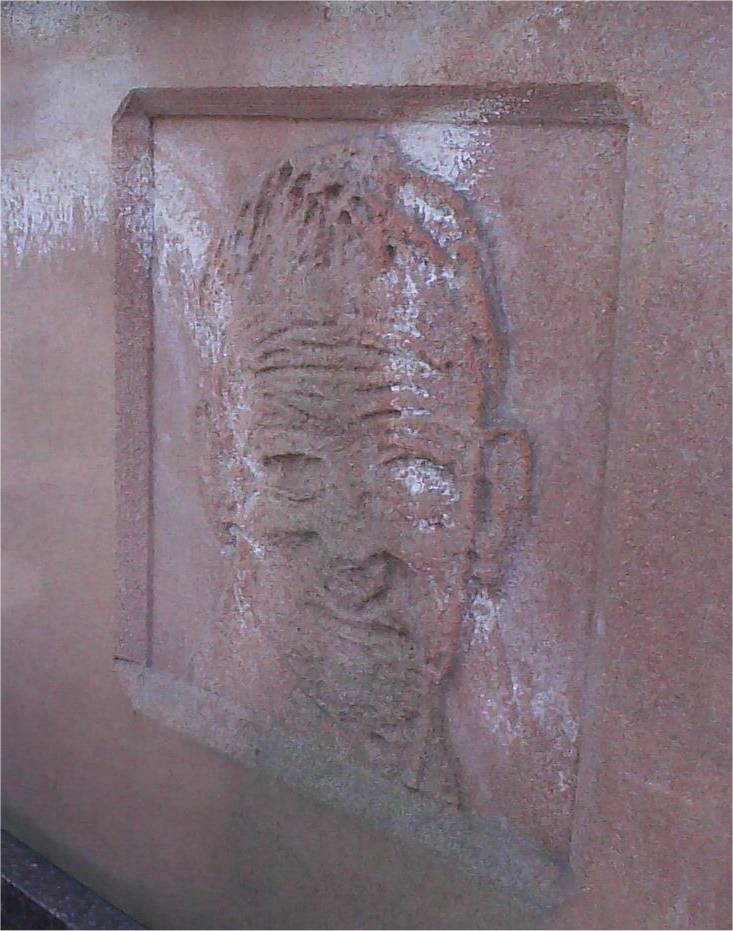 Image of Stanislaw Zagajewski on his grave.